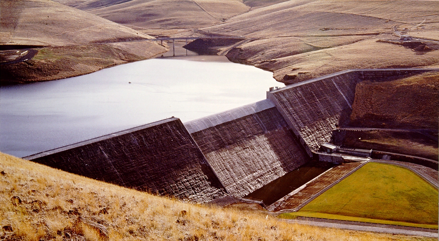 Willow Creek Dam which forms Willow Creek Lake near Heppner in the northeastern part of Oregon. This is the first major dam built using roller-compacted concrete.